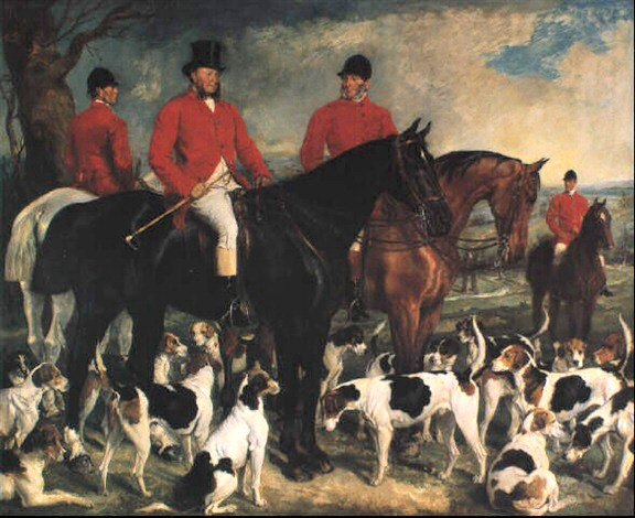 "Portrait of Gerard Leigh, Master of the Hertfordshire hounds at a meet" - Portrait of John Gerard Leigh painted 1870 and exhibited under the name of 'Equestrian portrait of J. G. Leigh Esq.' at the Royal Academy in 1871. Later donated to St Albans Museum and auctioned in 1994 (London) and 1998 (New York)